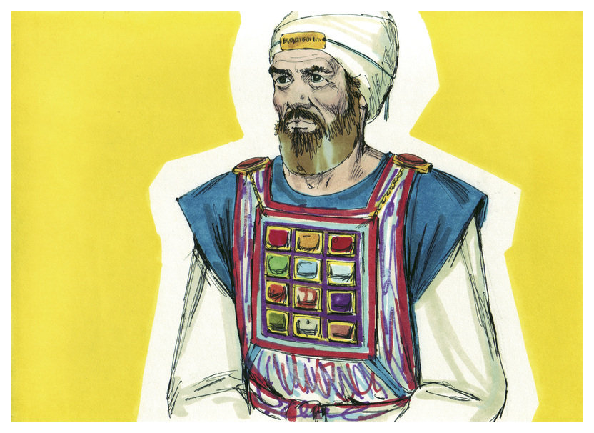 Biblical illustration of Book of Exodus Chapter 29